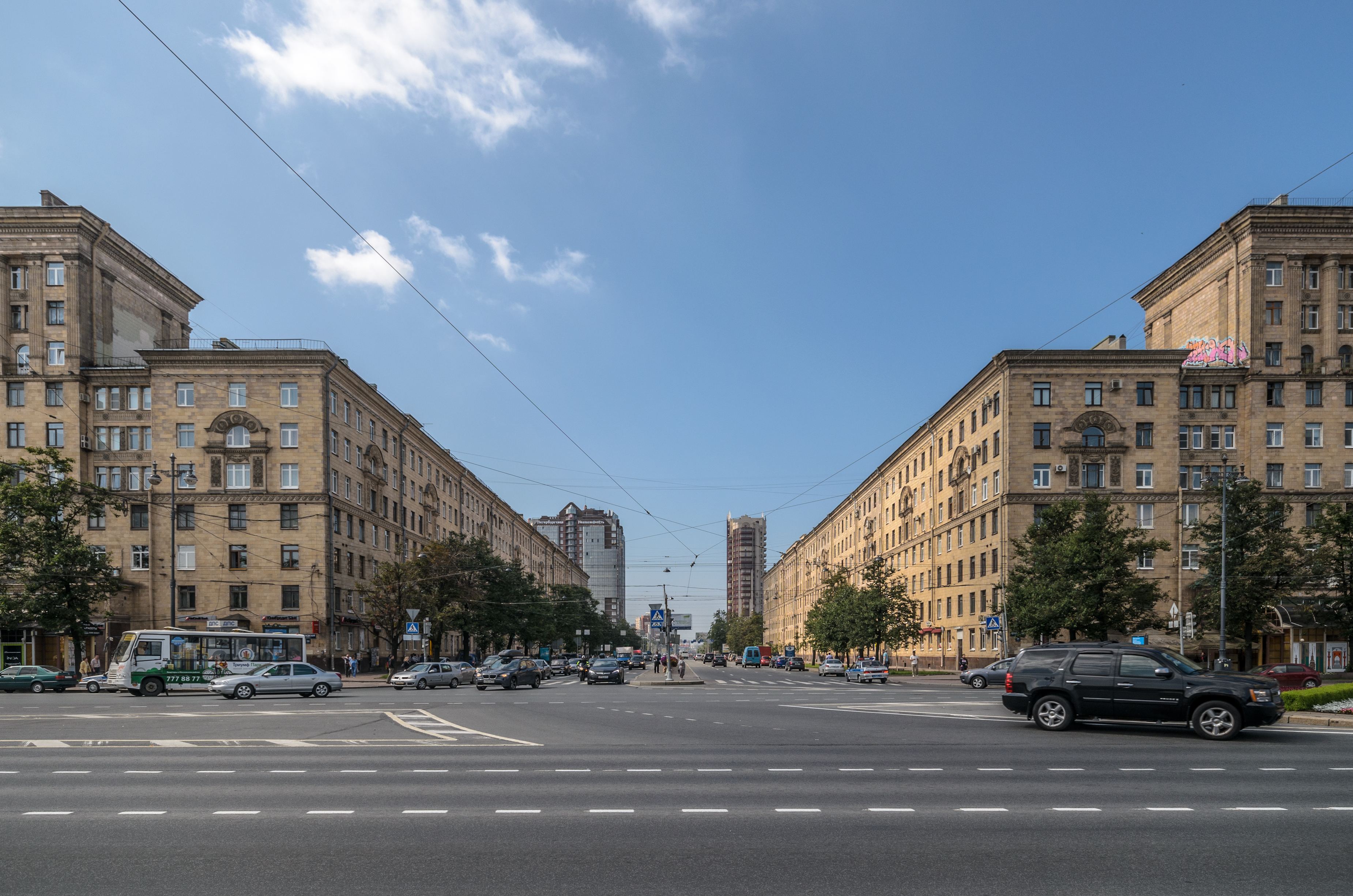 Leninsky Avenue in Saint Petersburg